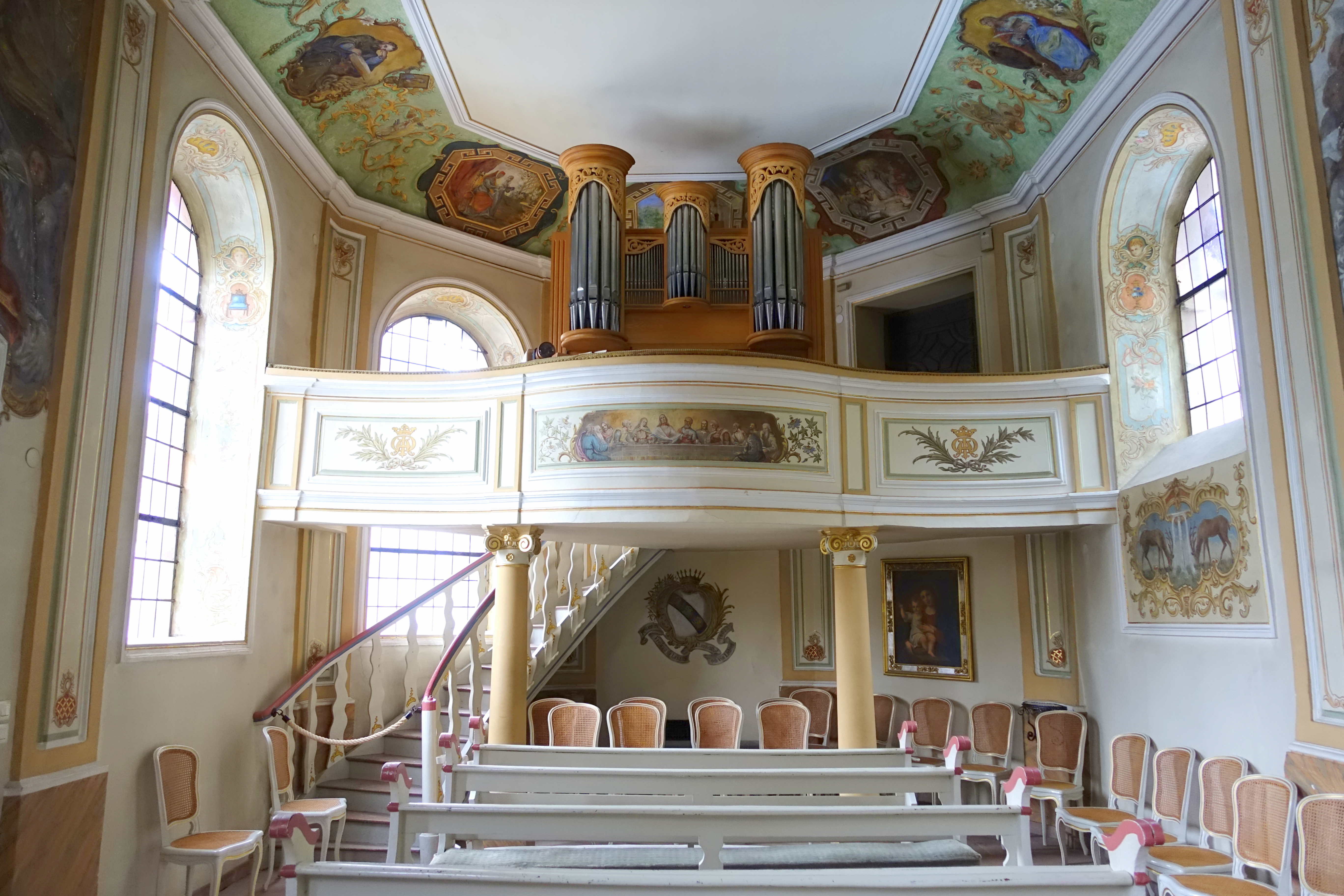 Schloss Dagstuhl, Saarland, Germany. All artwork is old enough so that it is in the public domain.